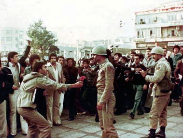 The Iranian Revolution (Also known as the Islamic Revolution or 1979 Islamic Revolution